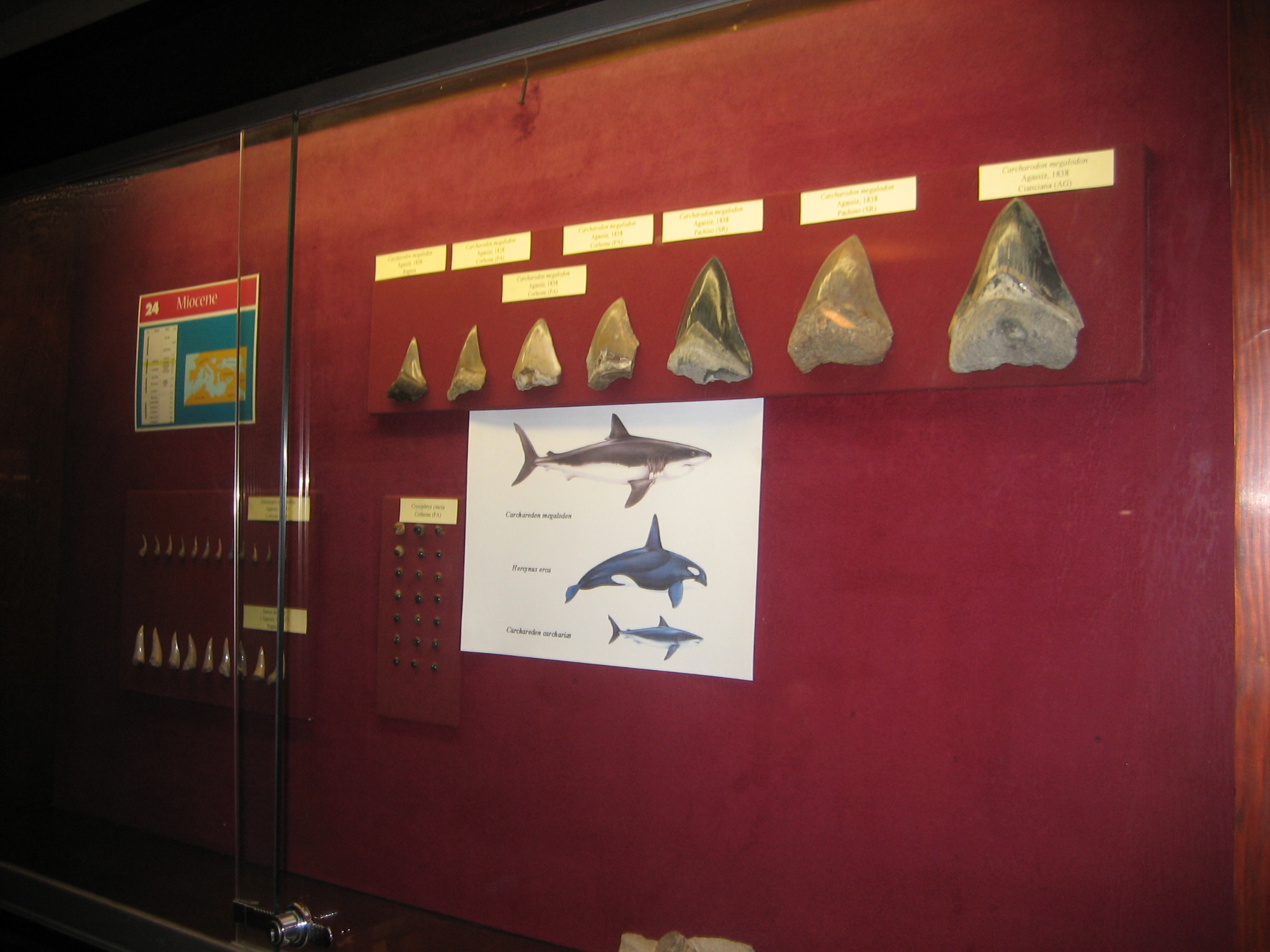 Fossils Museum Gemmellaro, Palermo